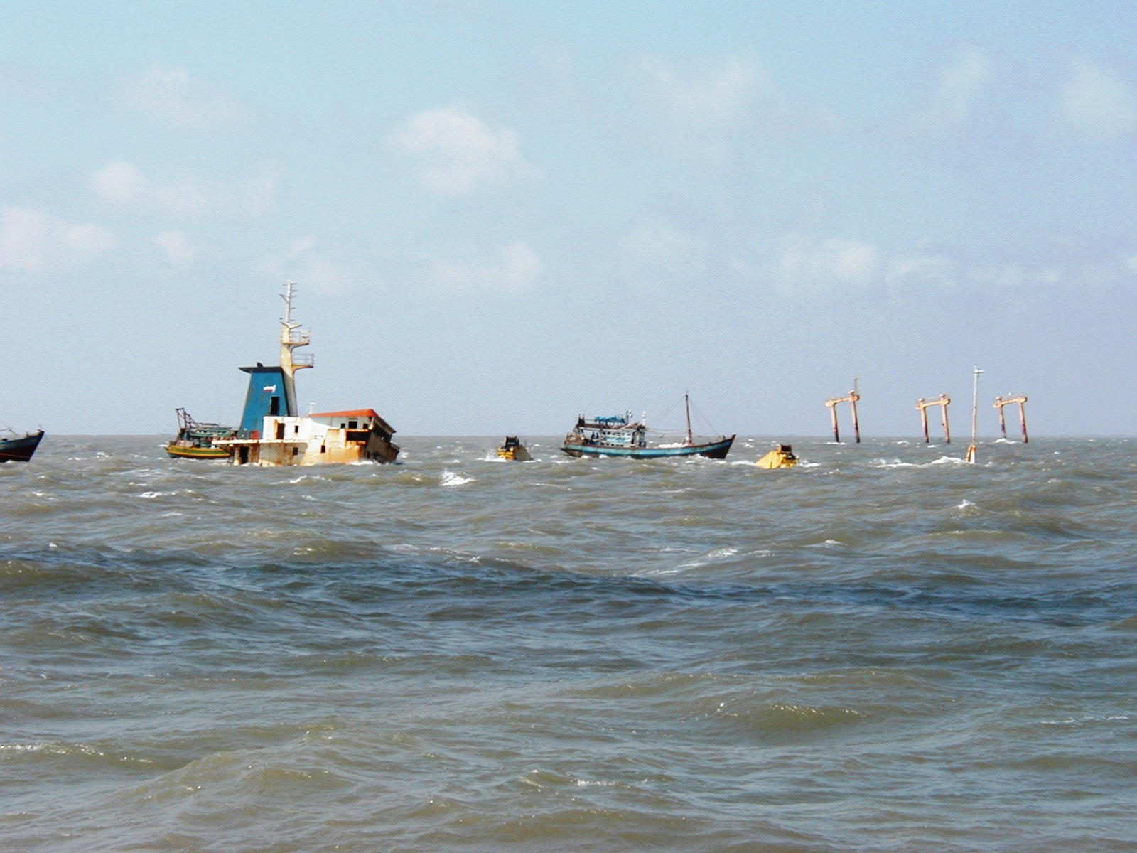 Sunken Ships (2) at Dinh An Mouth of the Mekong, Vietnam